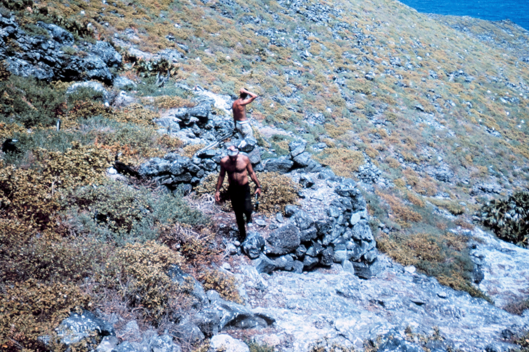 Remains of prehistoric house site, Nihoa, Northwestern Hawaiian Islands